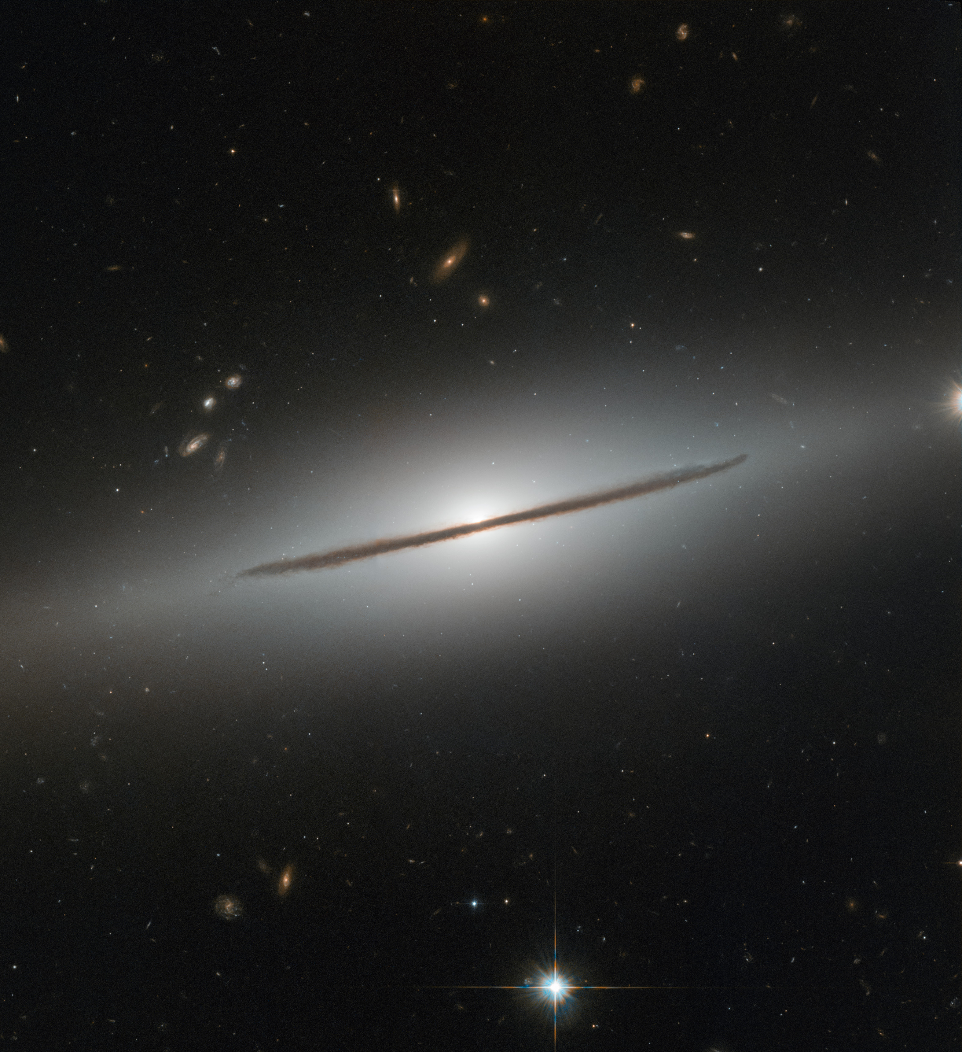 Resembling a wizard’s staff set aglow, NGC 1032 cleaves the quiet darkness of space in two in this image from the NASA/ESA Hubble Space Telescope. NGC 1032 is located about a hundred million light years away in the constellation Cetus (The Sea Monster). Although beautiful, this image perhaps does not do justice to the galaxy’s true aesthetic appeal: NGC 1032 is actually a spectacular spiral galaxy, but from Earth, the galaxy’s vast disc of gas, dust and stars is seen nearly edge-on. A handful of other galaxies can be seen lurking in the background, scattered around the narrow stripe of NGC 1032. Many are oriented face-on or at tilted angles, showing off their glamorous spiral arms and bright cores. Such orientations provide a wealth of detail about the arms and their nuclei, but fully understanding a galaxy’s three-dimensional structure also requires an edge-on view. This gives astronomers an overall idea of how stars are distributed throughout the galaxy and allows them to measure the “height” of the disc and the bright star-studded core.